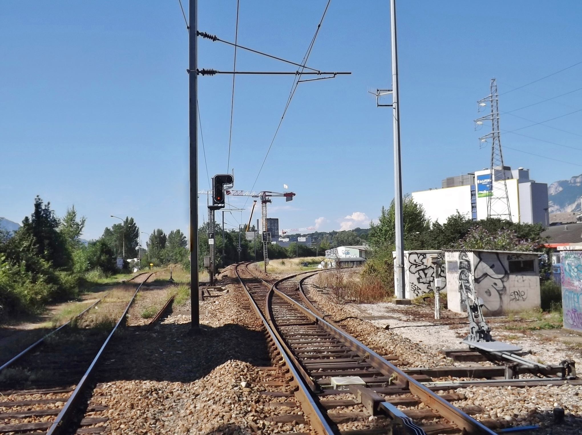 Sight of the main railway line from Lyon at the center, at the junction with two service lines serving the Bissy industrial area, in Chambéry, Savoie, France.